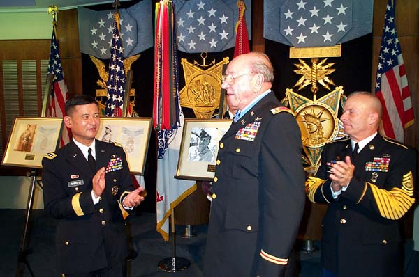 U.S. Army Major Ed Freeman (retired) is inducted into the Pentagon's Hall of Heroes following his receipt of the Medal of Honor